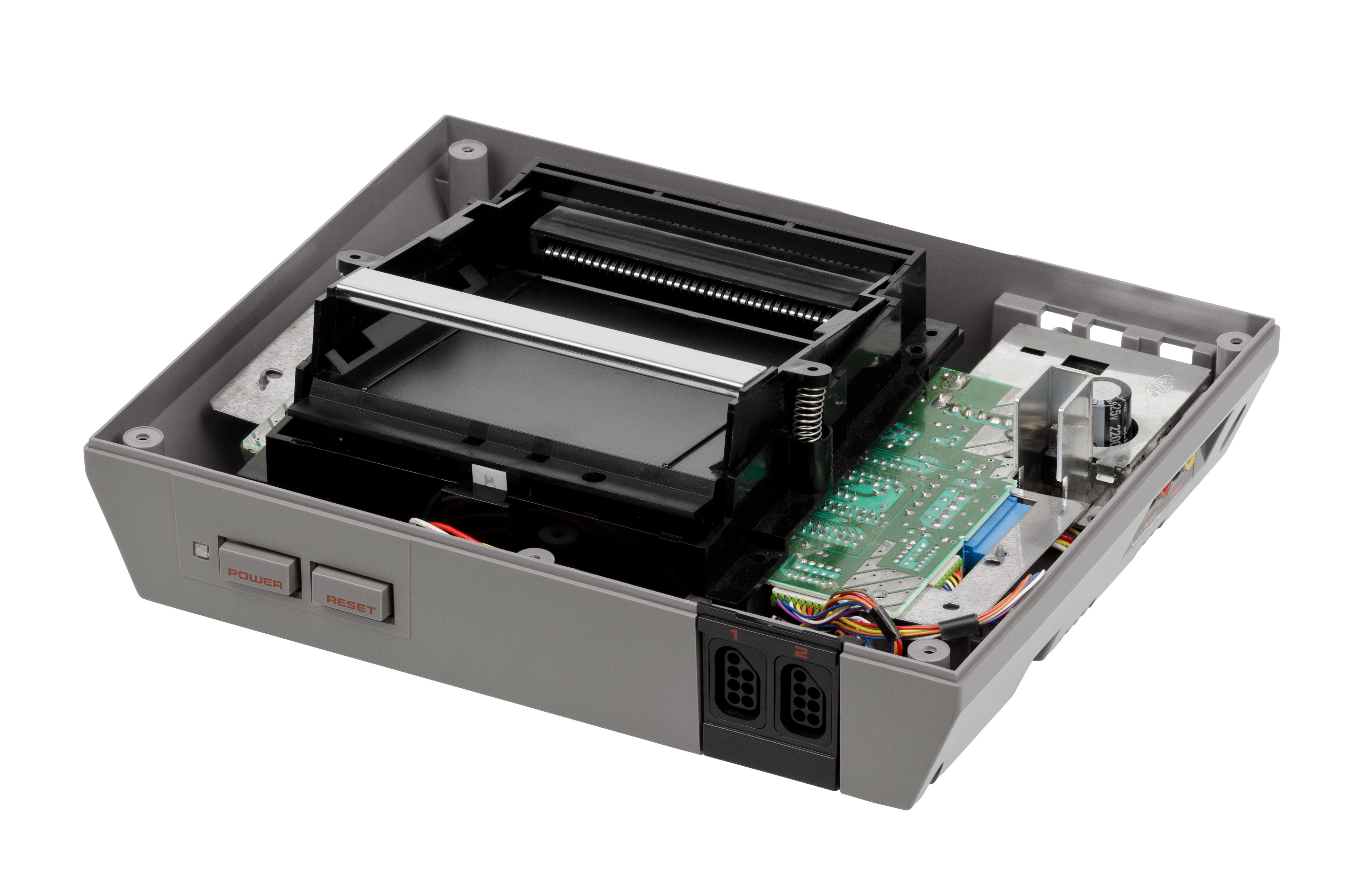 The Nintendo Entertainment System video game console, also known as the NES. Released in 1985, it is the first game console released in America by Nintendo. This picture shows the console opened with the upper shielding removed.